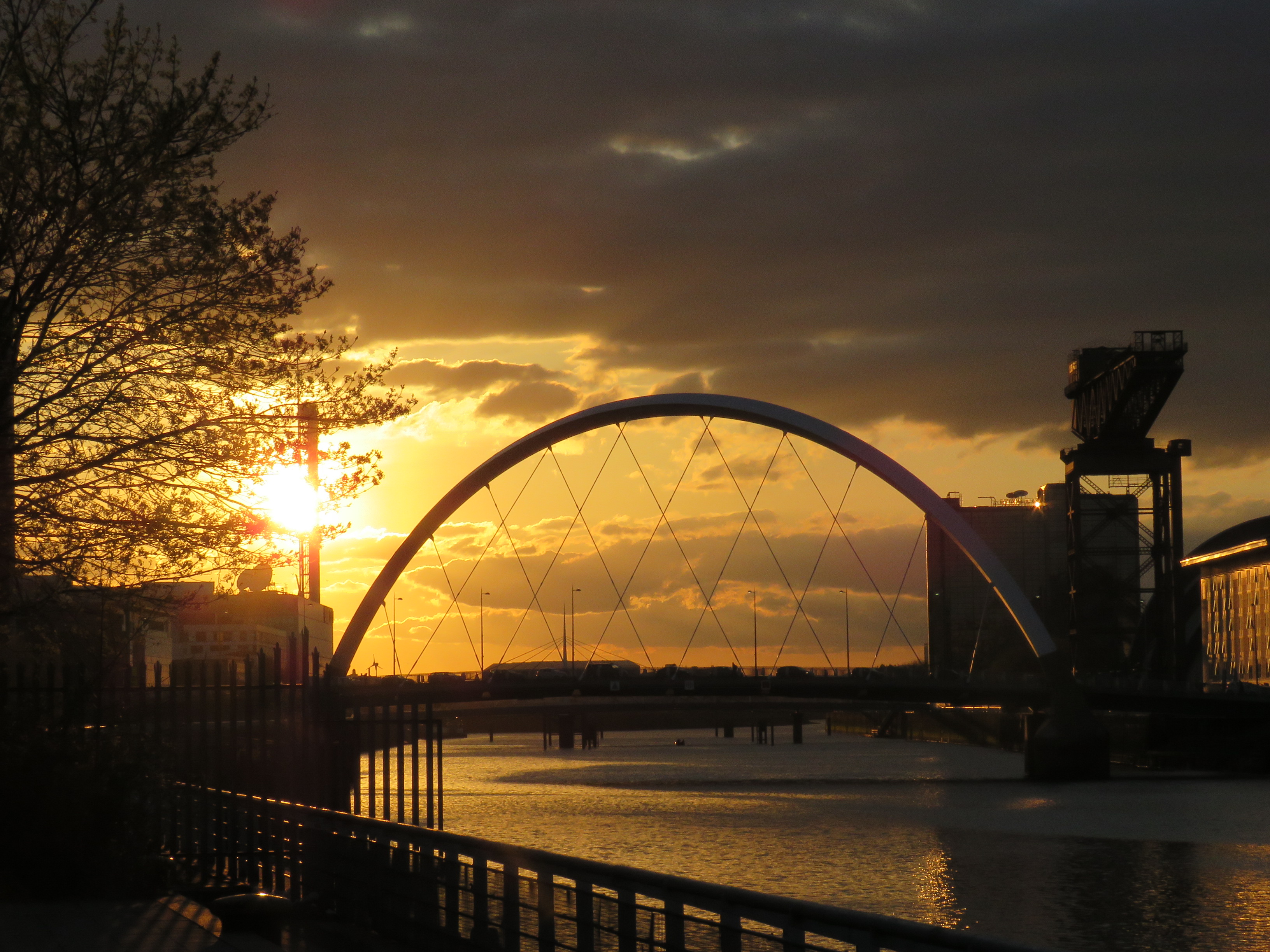 Sunset on Clyde Arc bridger over the River Clyde in Glasgow